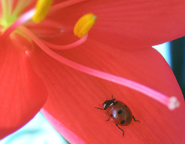 Ladybird on a hippeastrum flower.